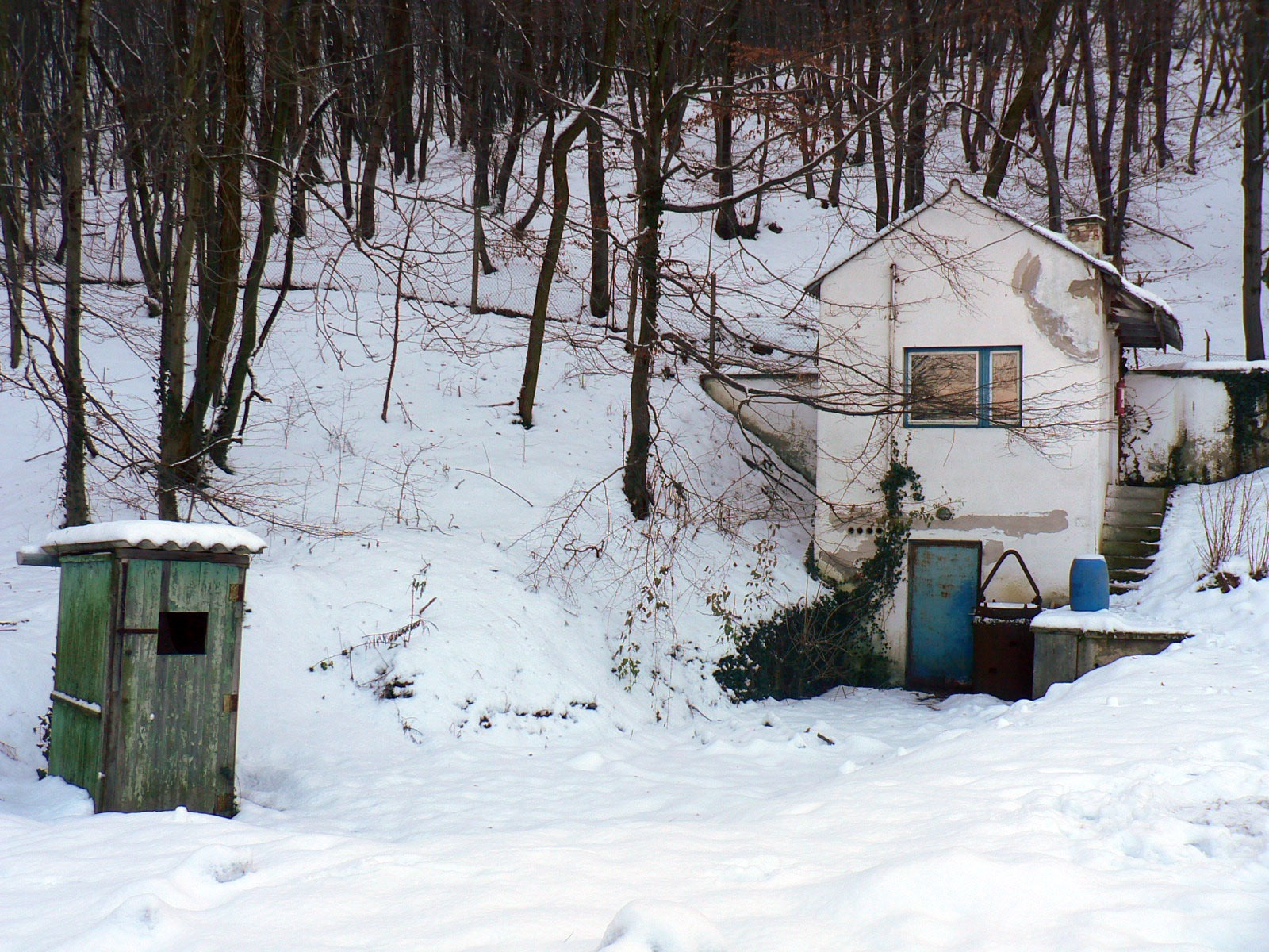 A Jóreménység altáró helye 2010 telén - a bányavágat a kék ajtó mögött nyílt